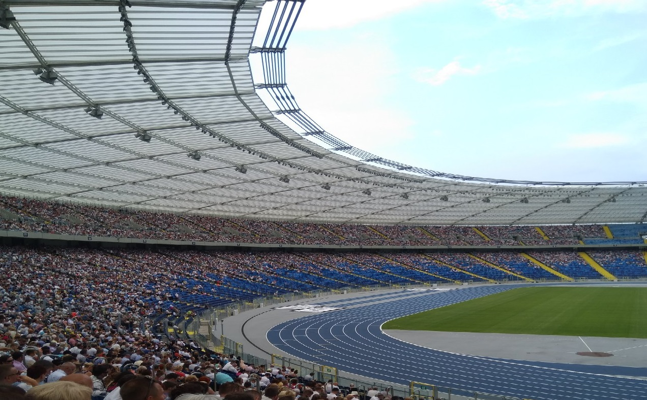 Convention Jehovah's Witnesses 2018. Chorzów